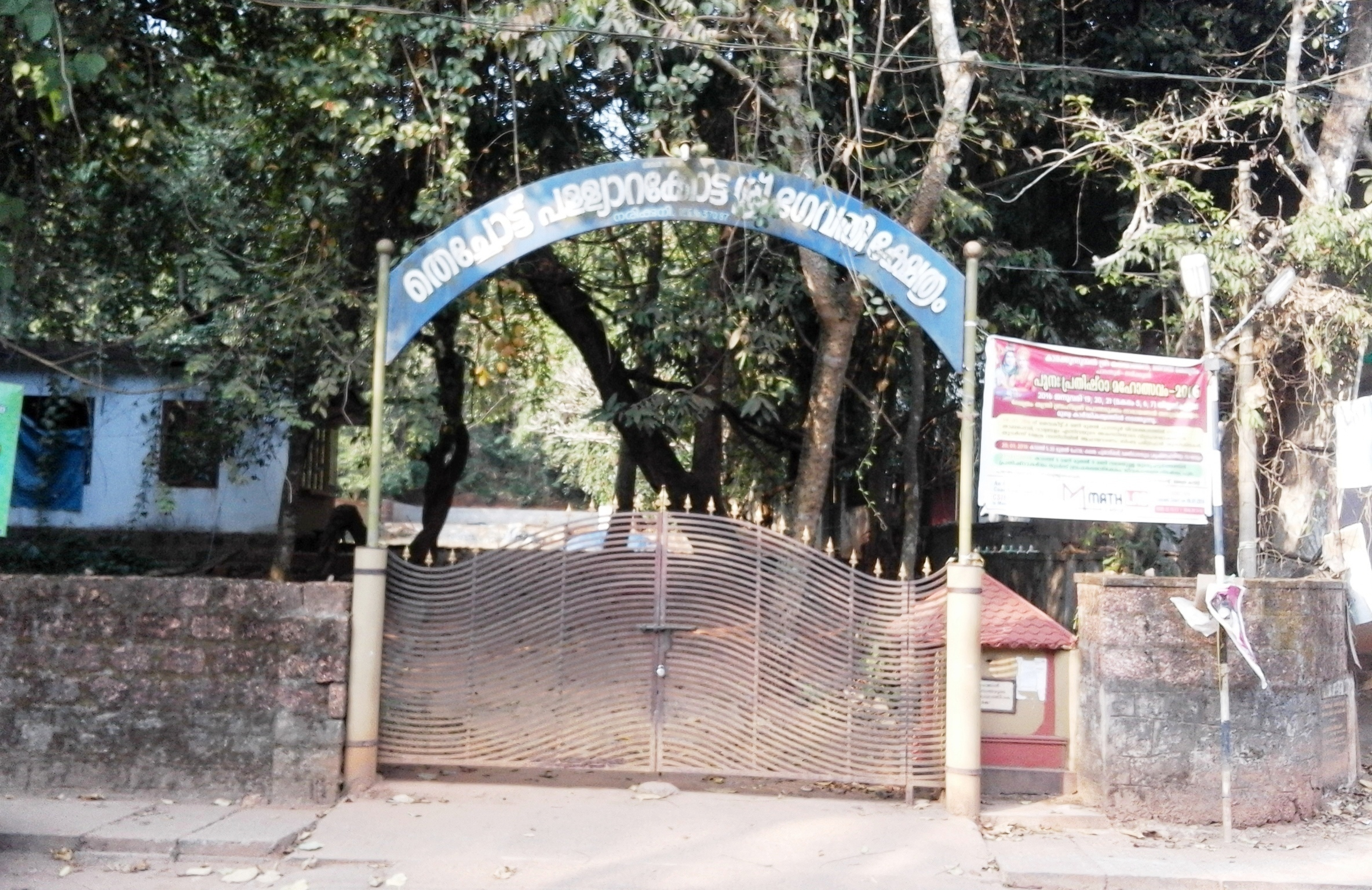 Balussery, Kozhikode District, Kerala Province, India.